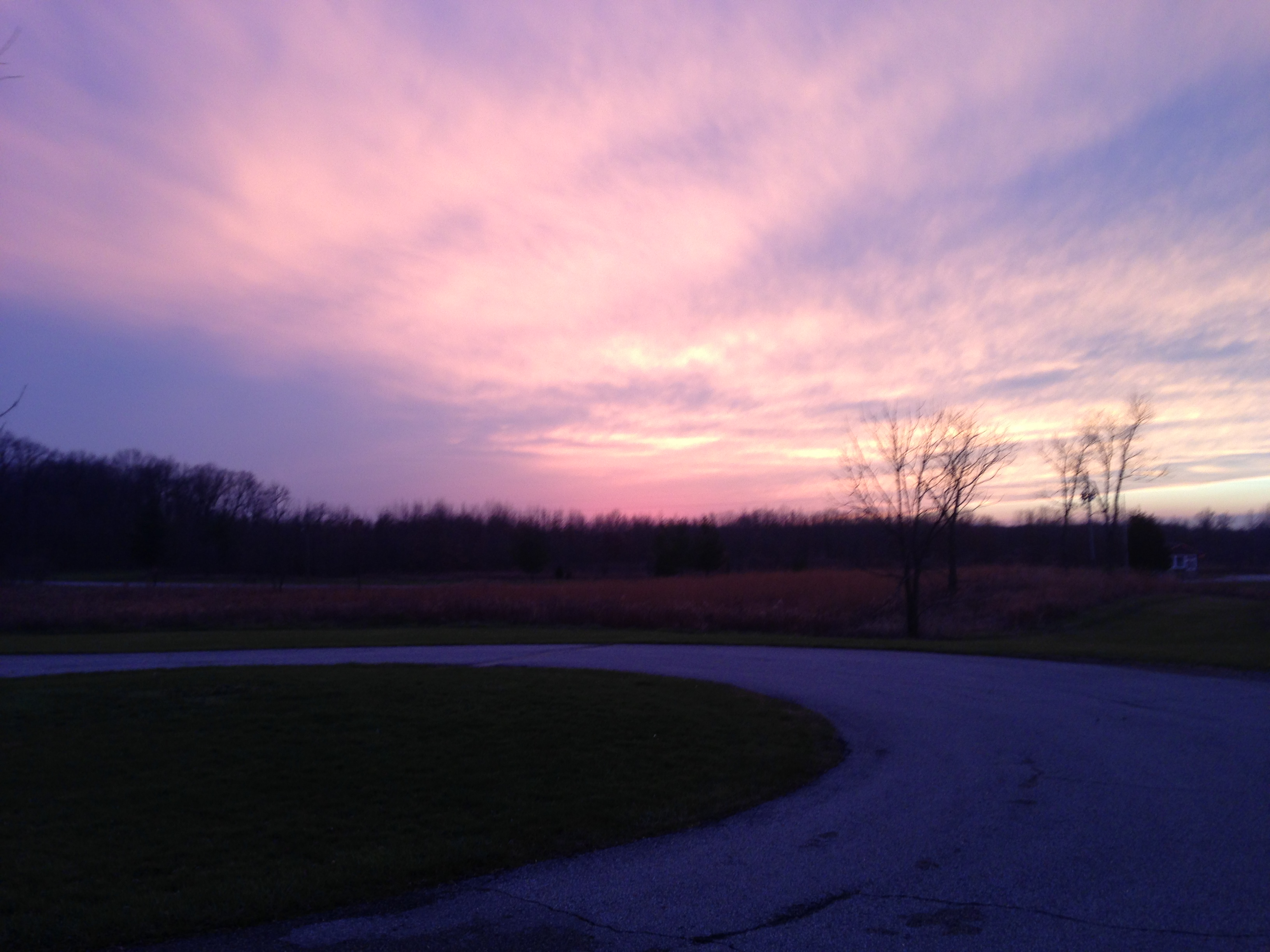 Taken from front office of Summit Lake State Park.